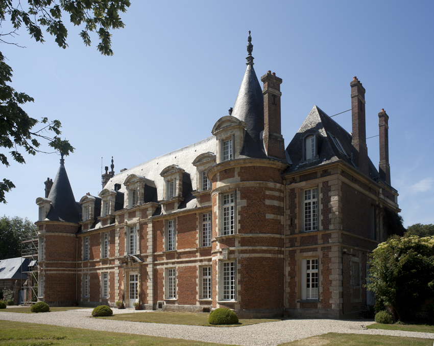 This building is en partie classé, en partie inscrit au titre des Monuments Historiques. It is indexed in the Base Mérimée, a database of architectural heritage maintained by the French Ministry of Culture, under the references PA00101024 and PA00101064 .